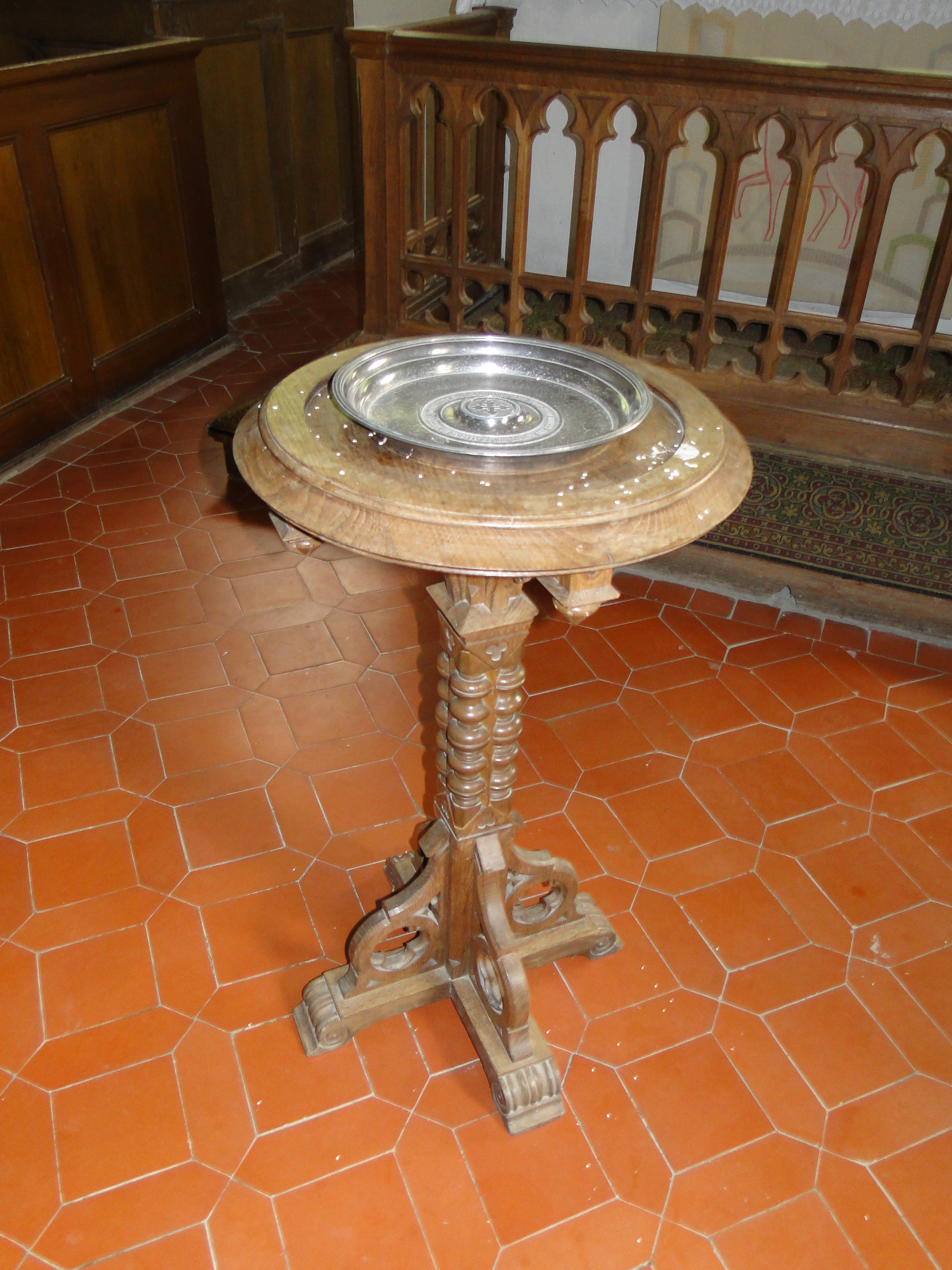 Church in Techentin, district Ludwigslust-Parchim, Mecklenburg-Vorpommern, Germany